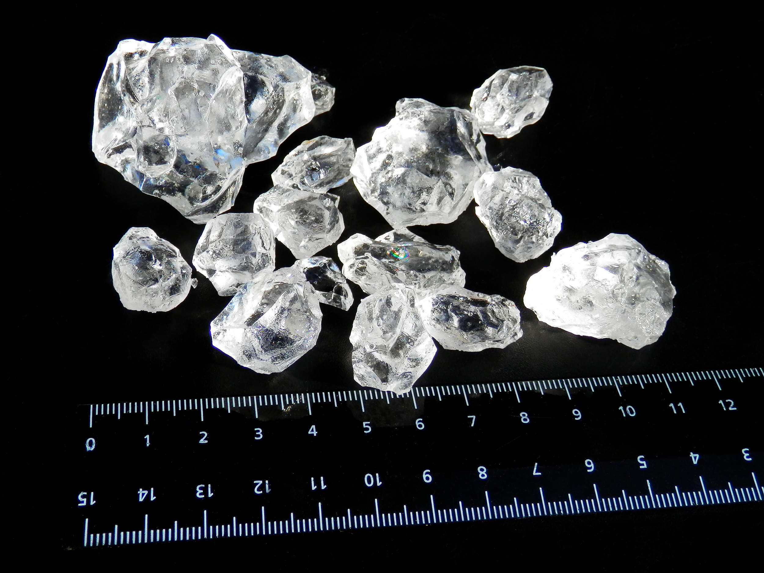 Сarnallite crystals